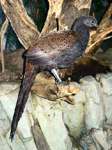 taken at Bronx Zoo, New York